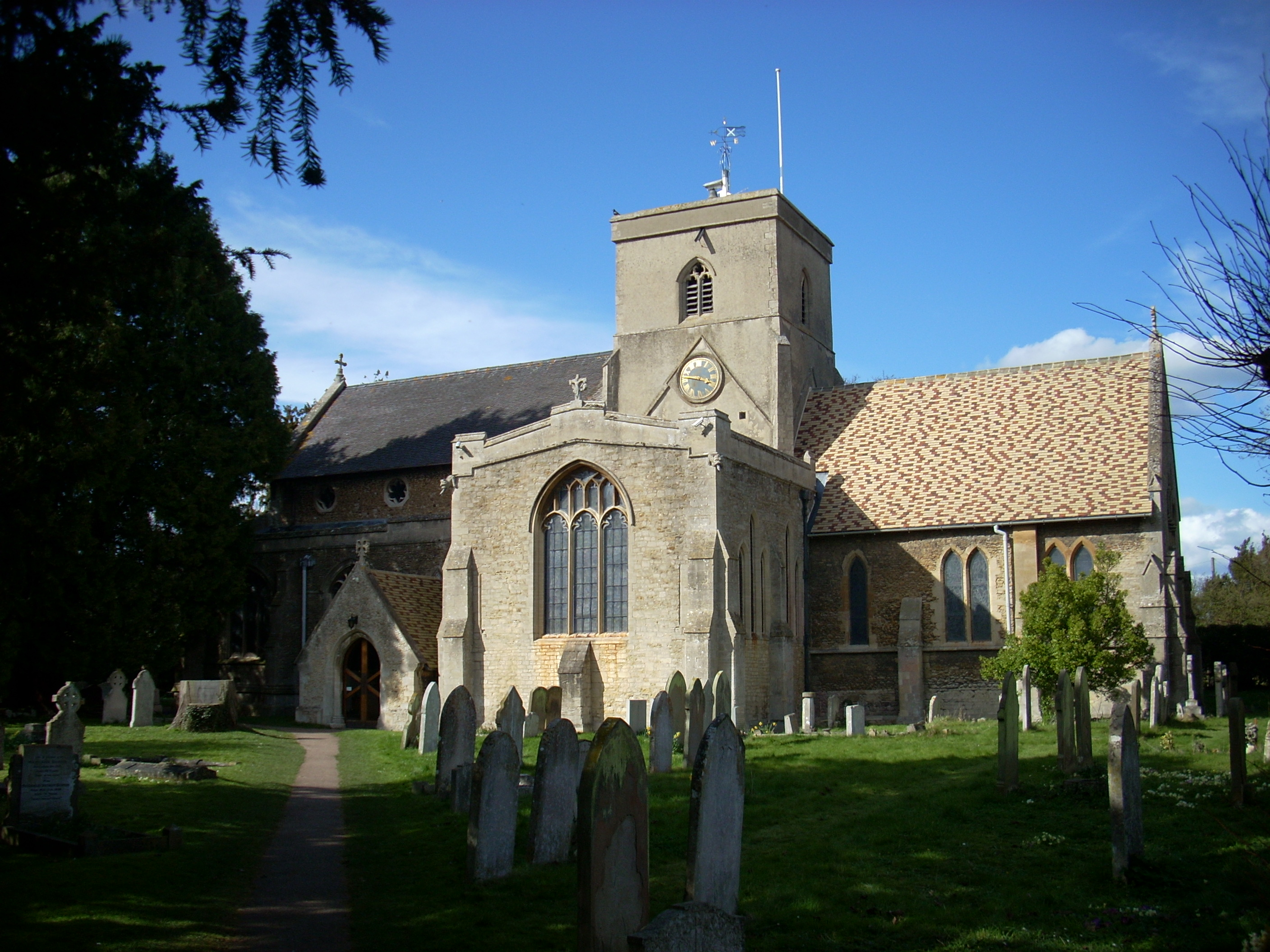 St Andrew's and St Etheldreda's church, Histon, Cambridgeshire, England